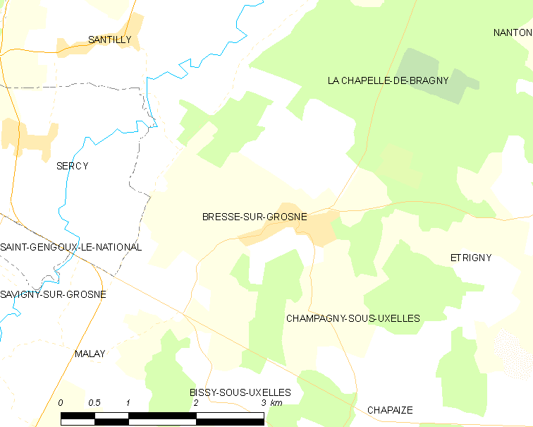 Map of French municipality